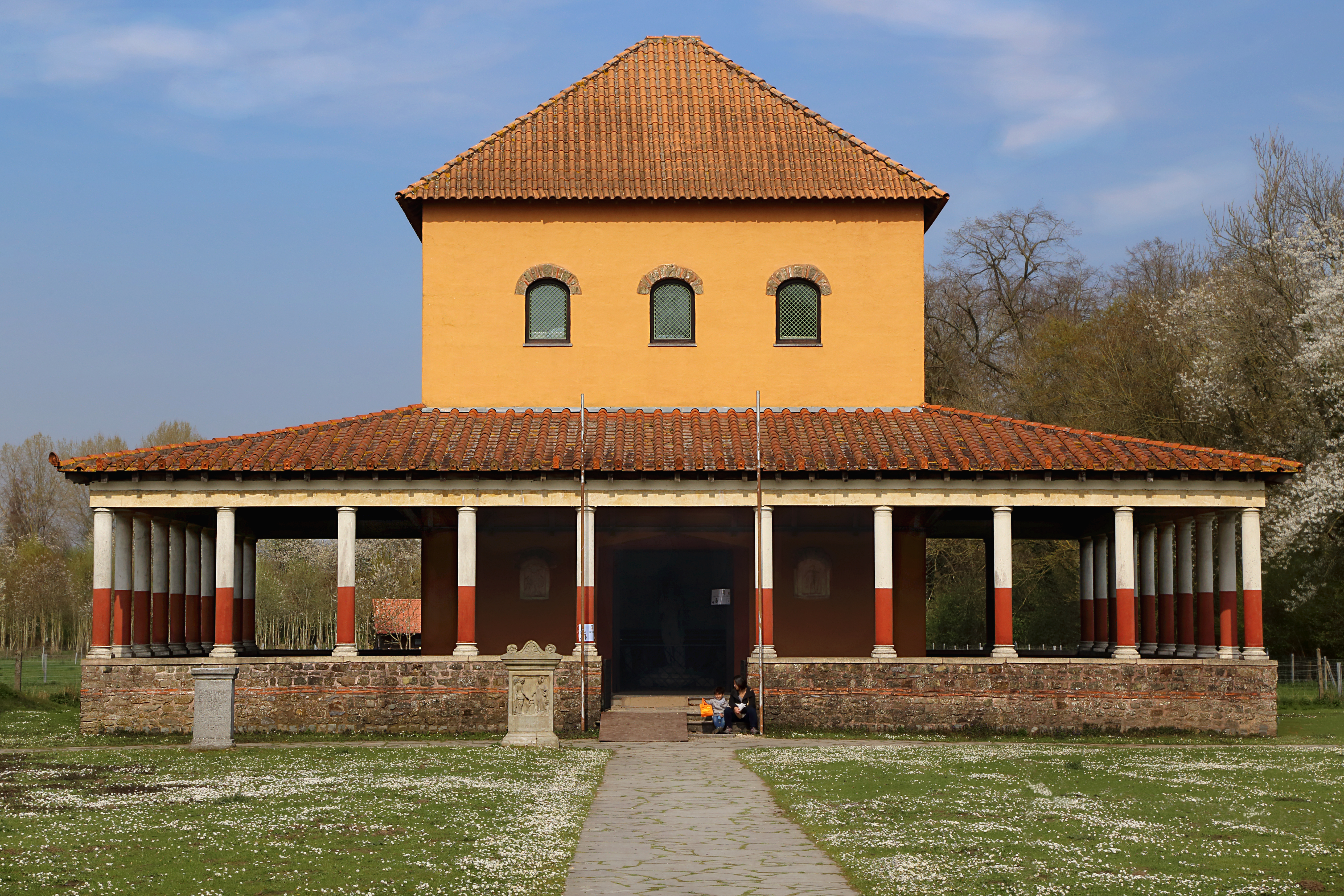 The Roman temple in the Archeosite of Aubechies, Belgium.